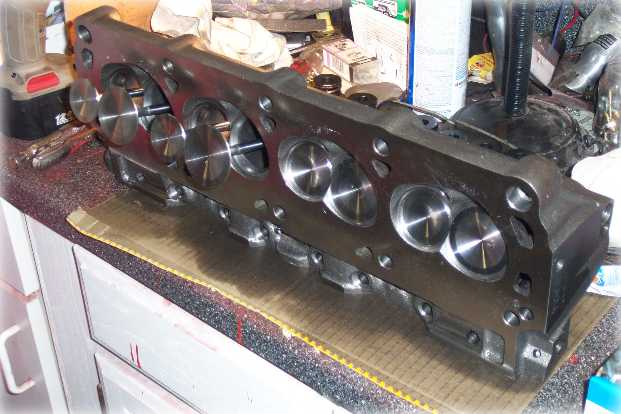 Ford 302/5.0L cylinder head